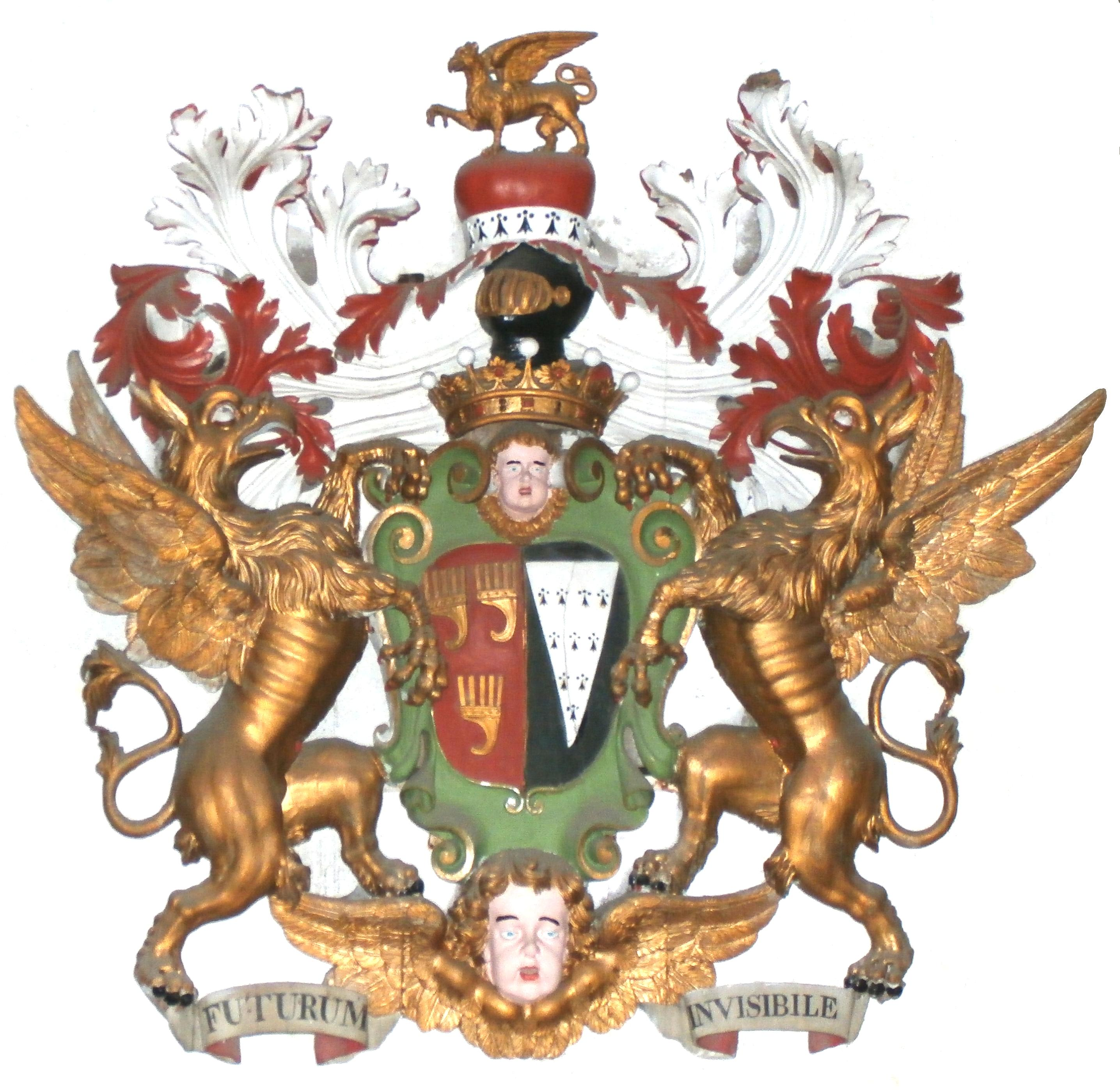 Heraldic achievement of John Granville, 1st Earl of Bath (1628-1701), south wall of Granville Chapel, Church of St James the Great, Kilkhampton, Cornwall. The arms show Gules, three clarions or (Grenville) impaling Azure, a pile ermine (Wyche, family of his wife). The motto on a scroll beneath is Futurum invisibile ("The future is unseen"). The supporters are: Two winged griffins rampant or, with crest: On a cap of maintenance on a helm on an earl's coronet, a griffin passant or